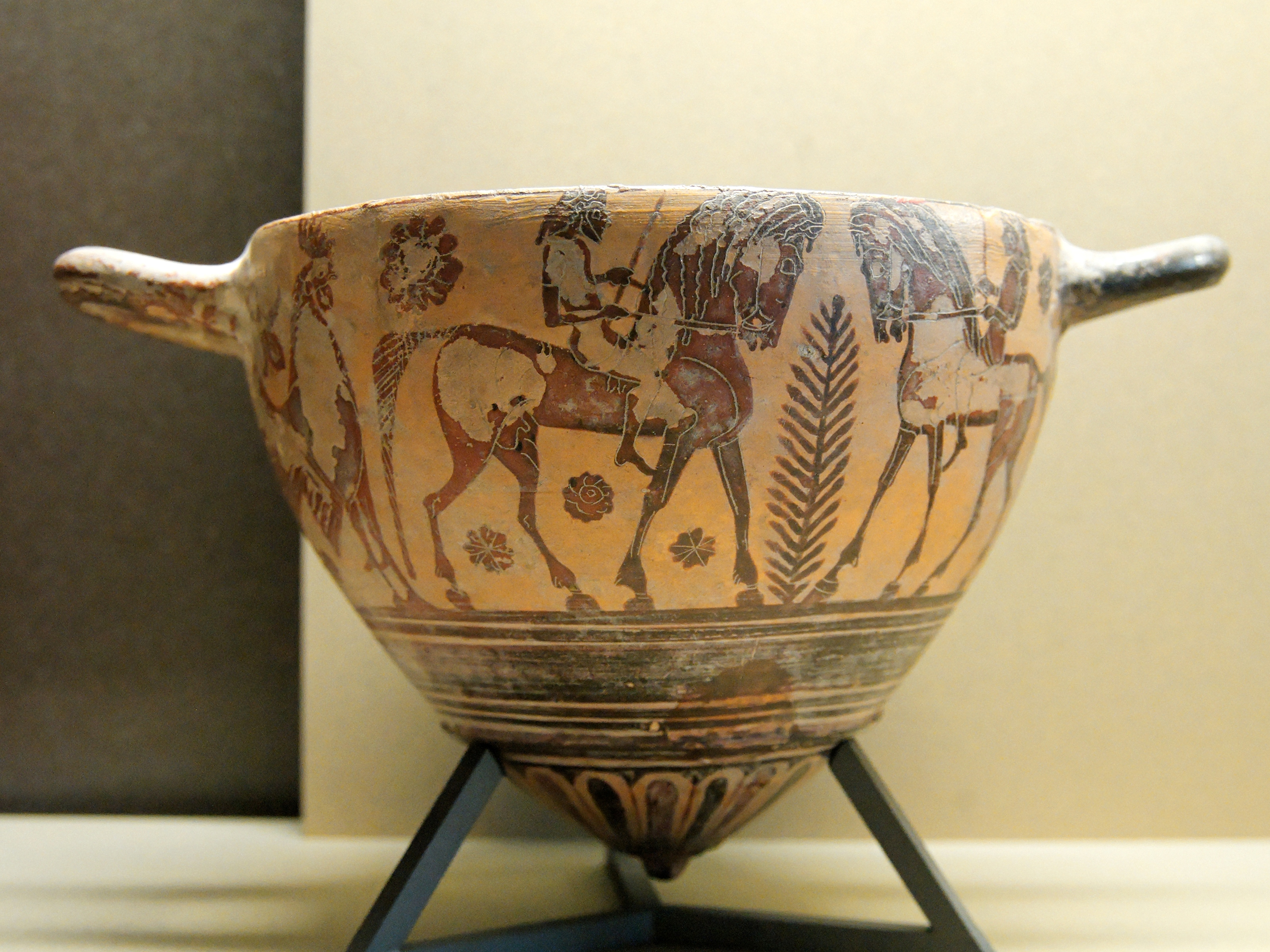 Riders. Side A of a Corinthian black-figure mastos, ca. 570-550 BC.